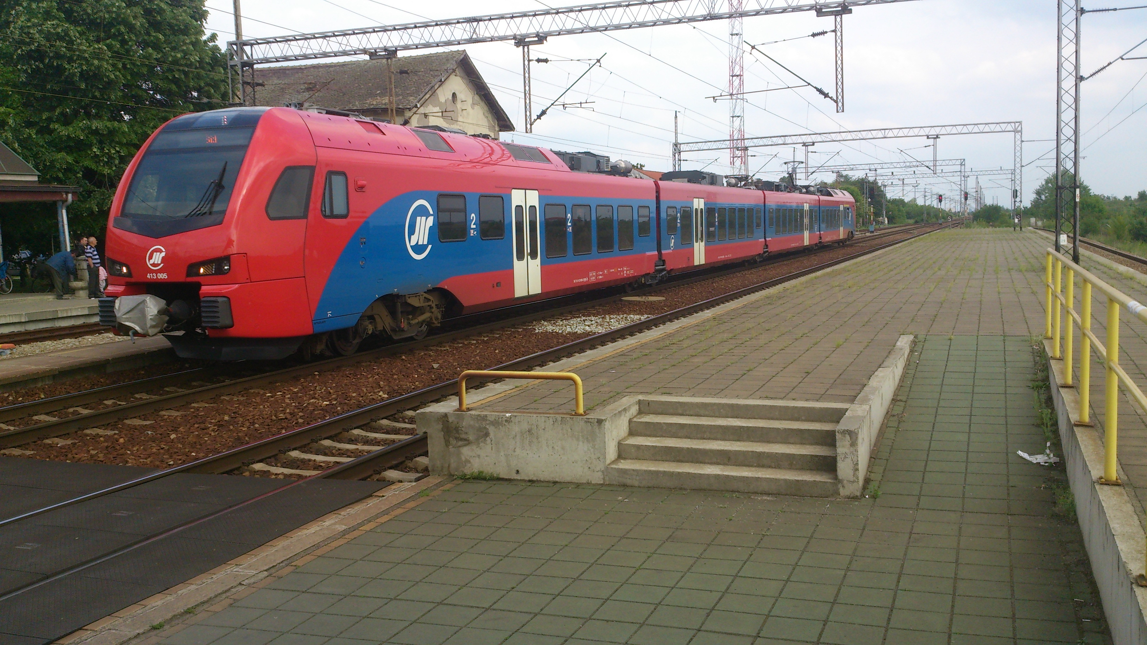 ŽS 413 005 at Nova Pazova railway station